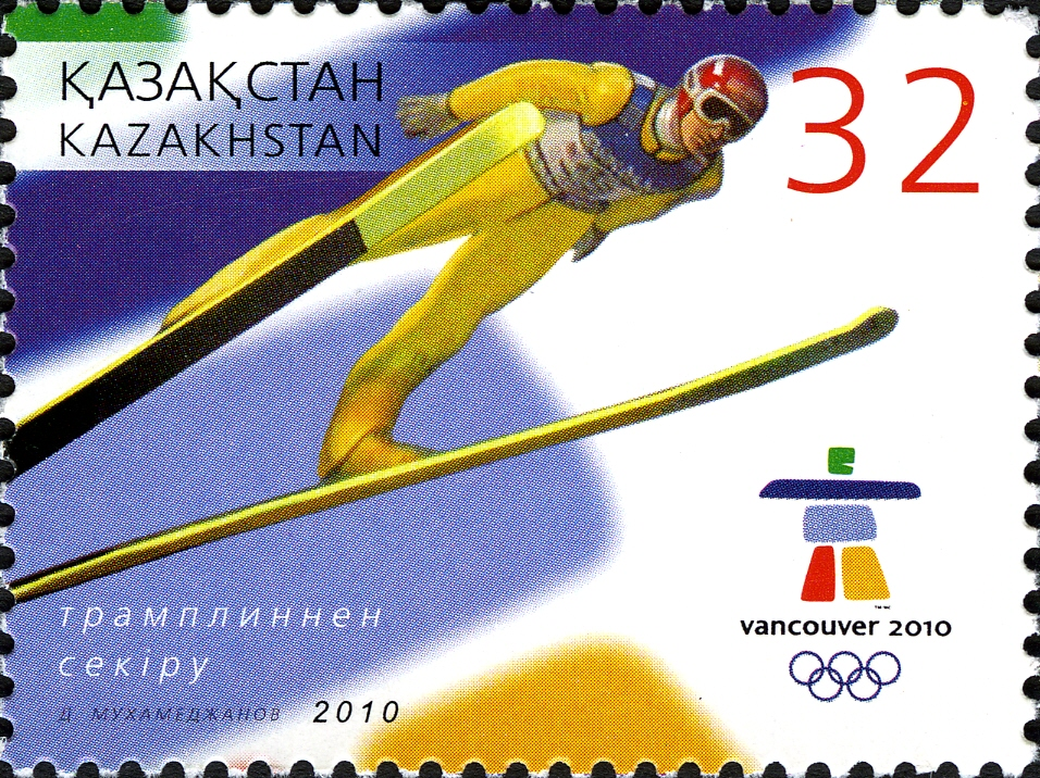 Kazakhstan stamp no. 671, commemorating the 2010 Winter Olympics and featuring ski jump.